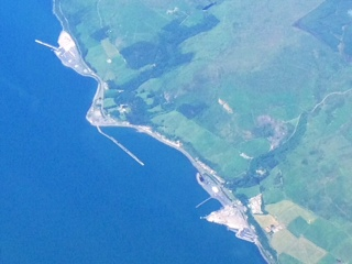 Aerial view of the jetty in Loch Ryan, Scotland, where the aircraft carriers HMS Eagle and HMS Ark Royal were broken up.